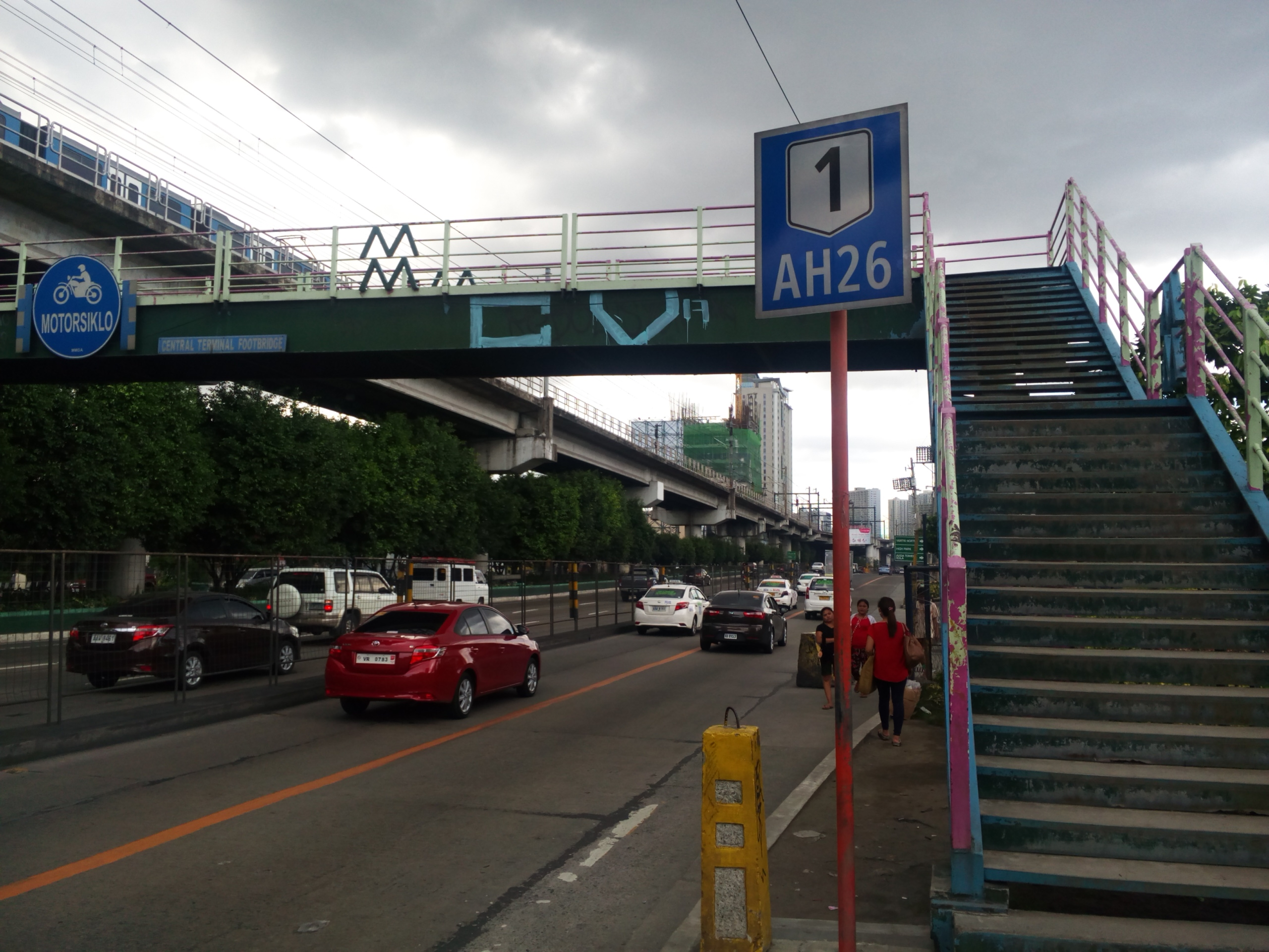 An AH26 sign along Epifanio Delos Santos Avenue (EDSA) in North Triangle, Quezon City. The sign states that EDSA is part of Asian Highway 26 (Pan-Philippine Highway or Maharlika Highway)